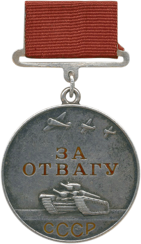 Medal of Valour (USSR)